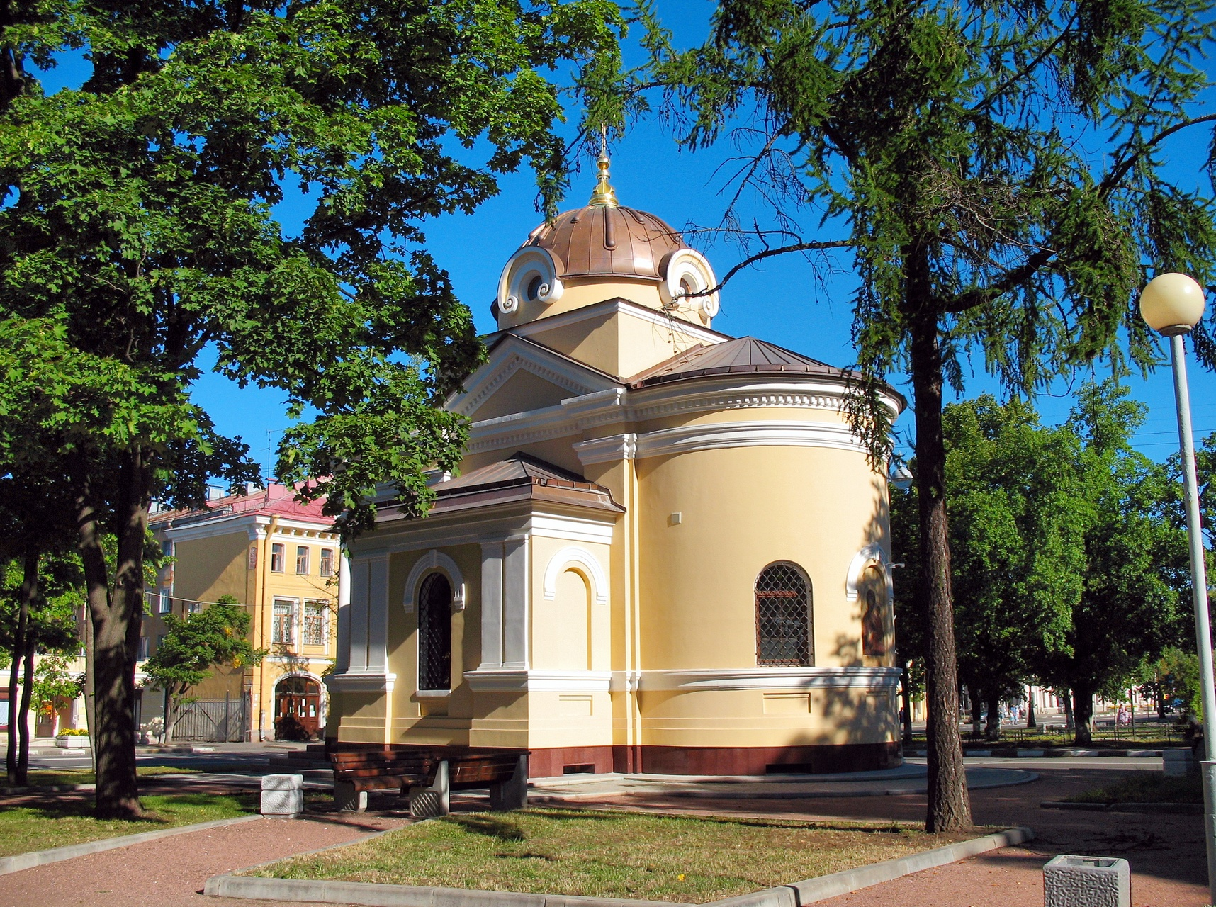 Kronstadt. Chapel of Saint Andrew's Cathedral